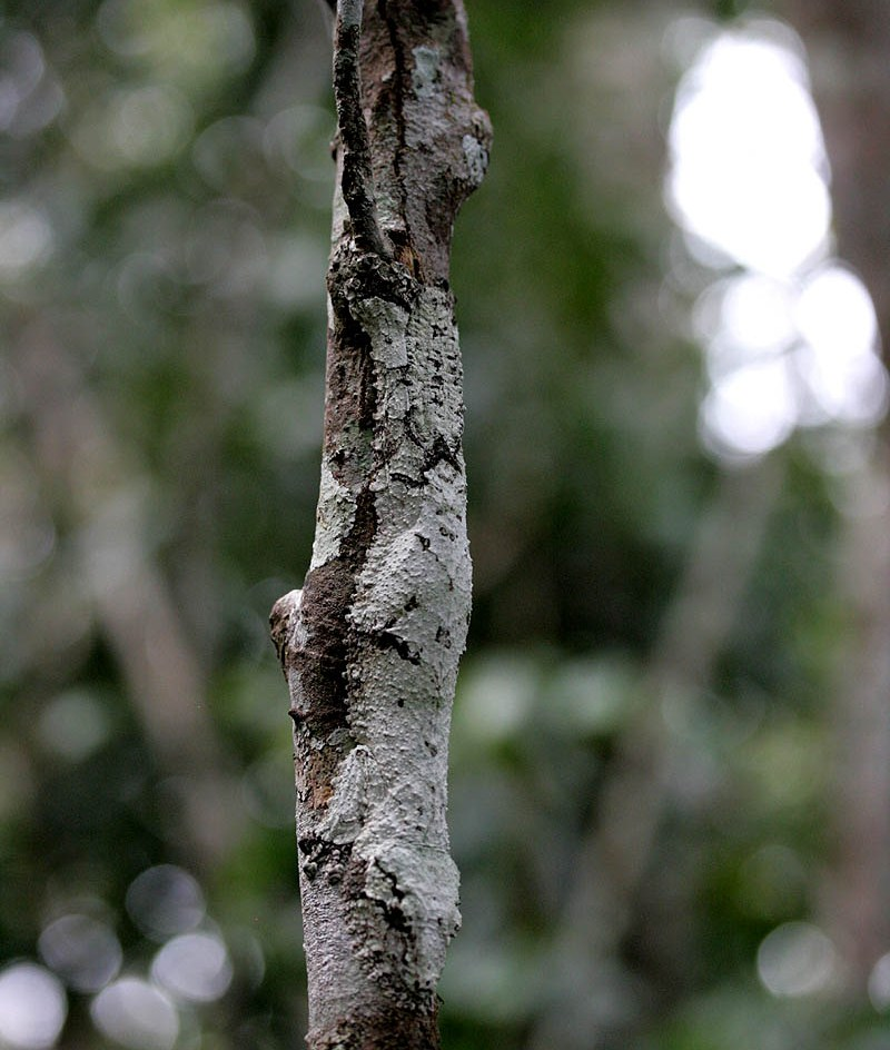 An Uroplatus sikorae at the Analamazaotra Forest Reserve, Madagascar